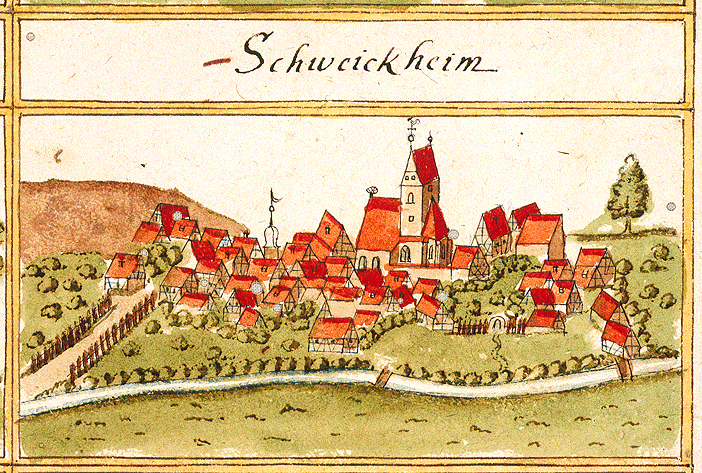 View of Schwaikheim from the forest register books created by Andreas Kieser